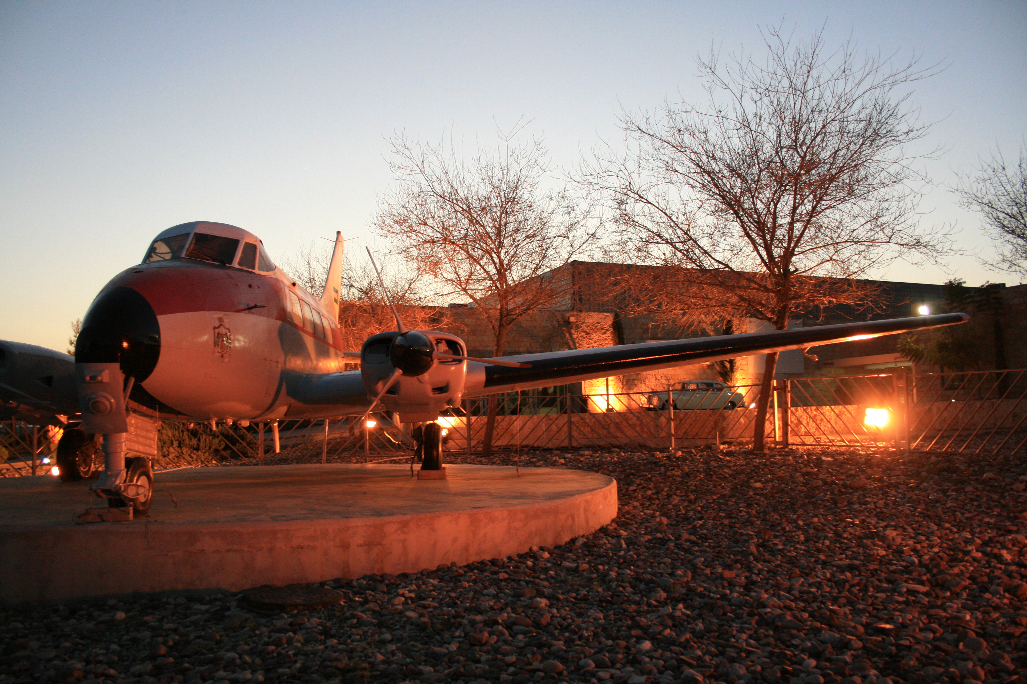 Jordan Royal Automobile Museum at AlHussein Public Parks, Amman, Jordan.